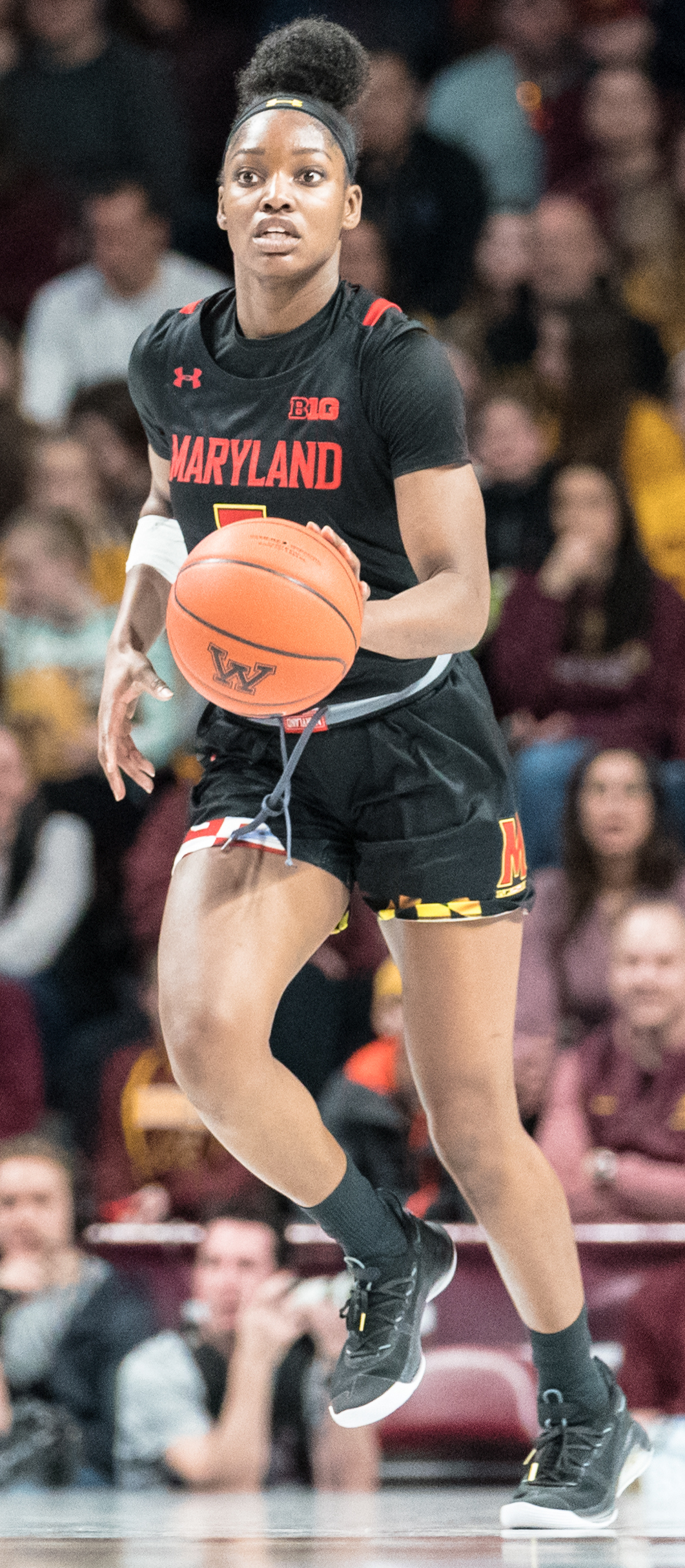 Kaila Charles guard for University of Maryland Terrapins in a game against Minnesota